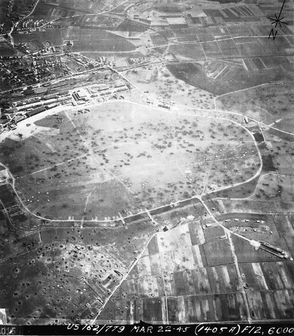 aerial view of Böblingen airfield after attacks in WWII